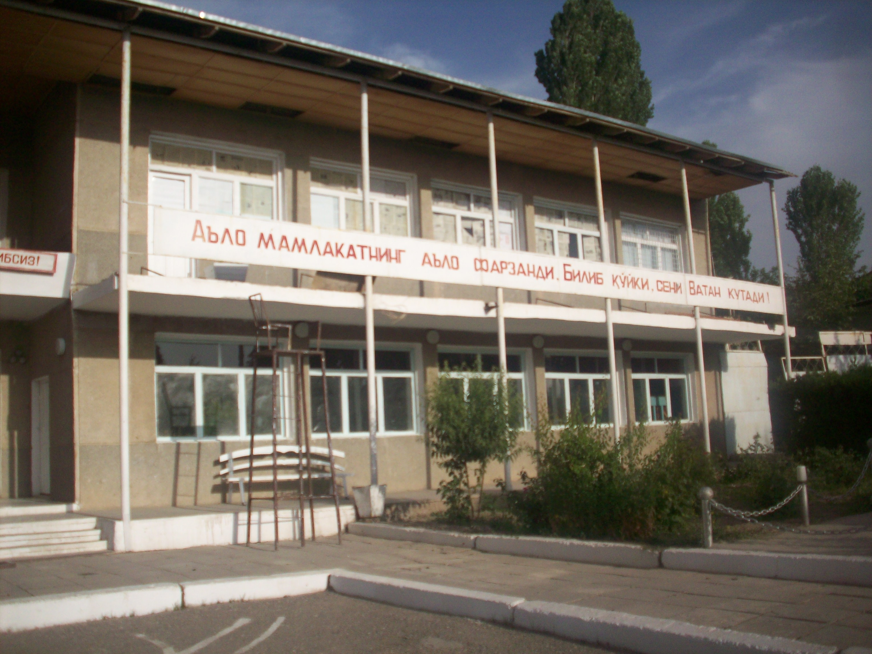 The building of the Uzbek Gymnasium in Isfana, Kyrgyzstan